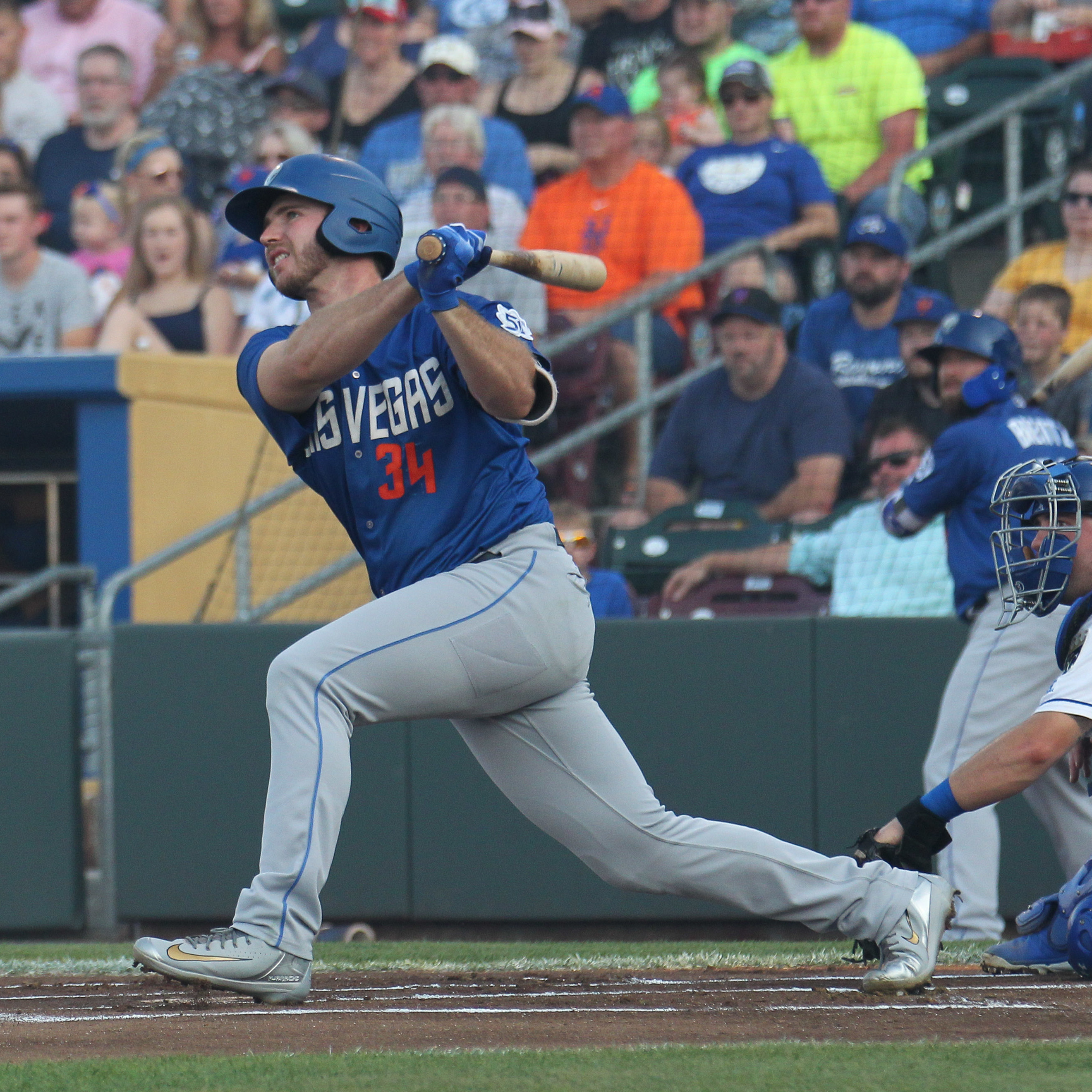 Peter Alonso with the Las Vegas 51s in Omaha in 2018